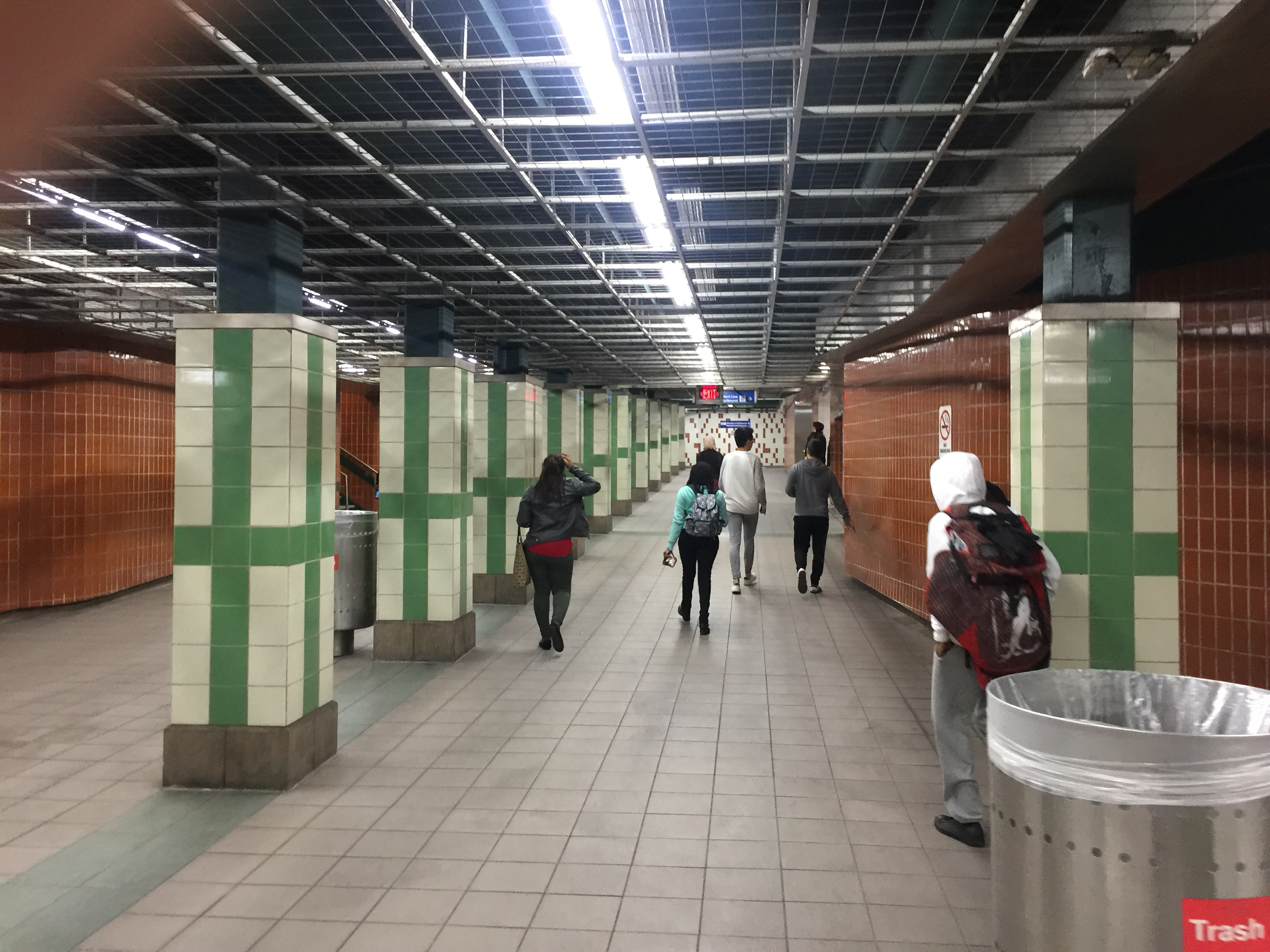 13th Street tunnel between MFL and trolleys